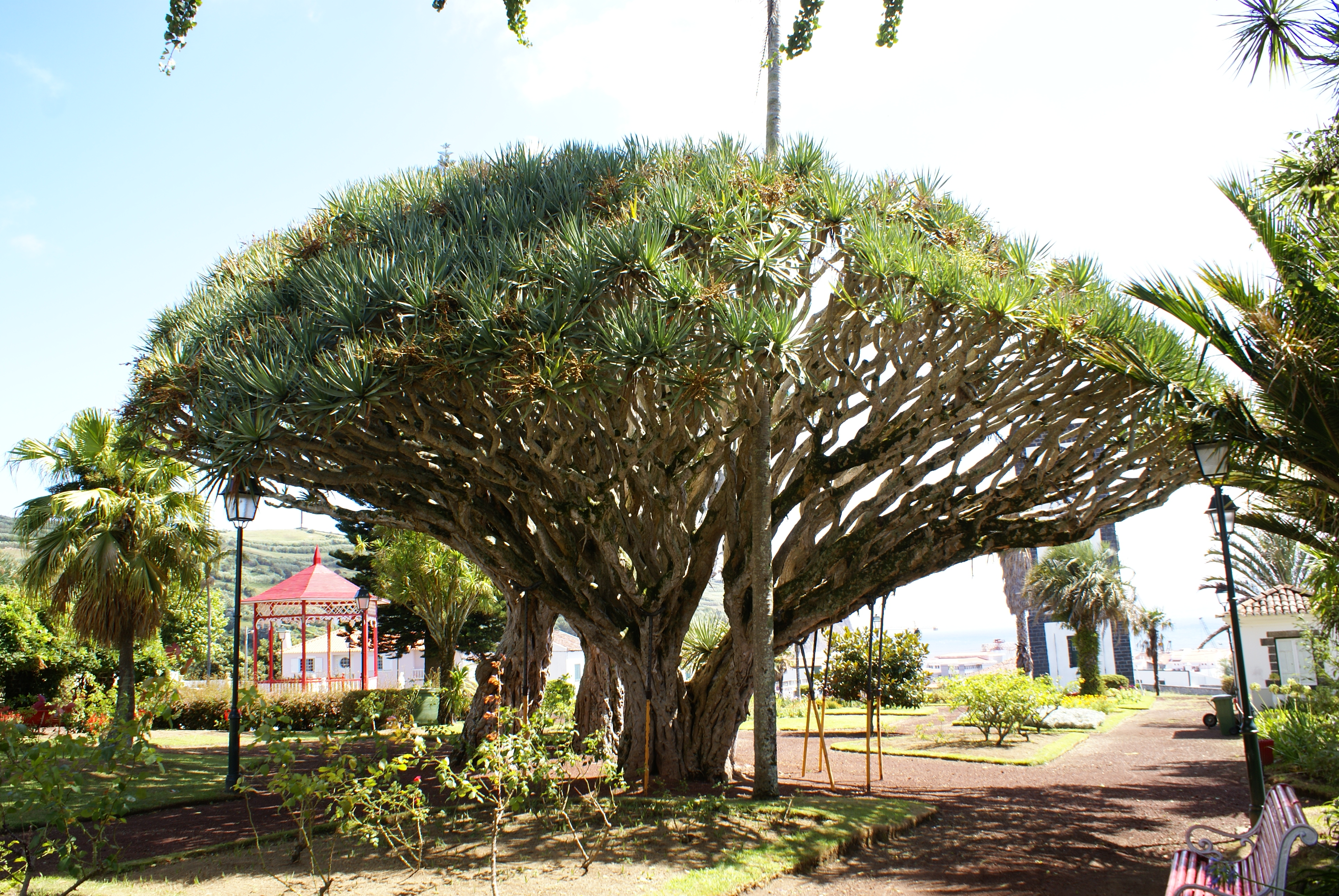 Dragoeiros (Dracaena draco), in the Garden of Florêncio Terra, Matriz, Horta, Faial (Azores), Portugal 1